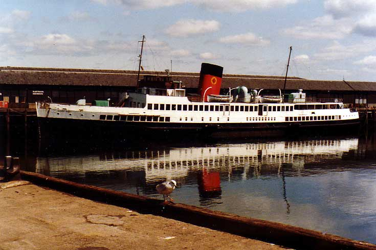 TS Queen Mary laid up in harbour in Greenock, Scotland, on the waterfront to the Firth of Clyde.